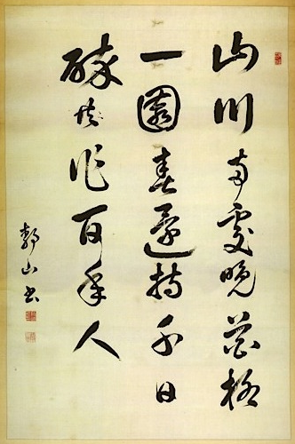 Chinese calligraphy by Ernest Mason Satow (1843-1929), circa 1873. Acquired by the British Library in 2004 (Or. 16054).